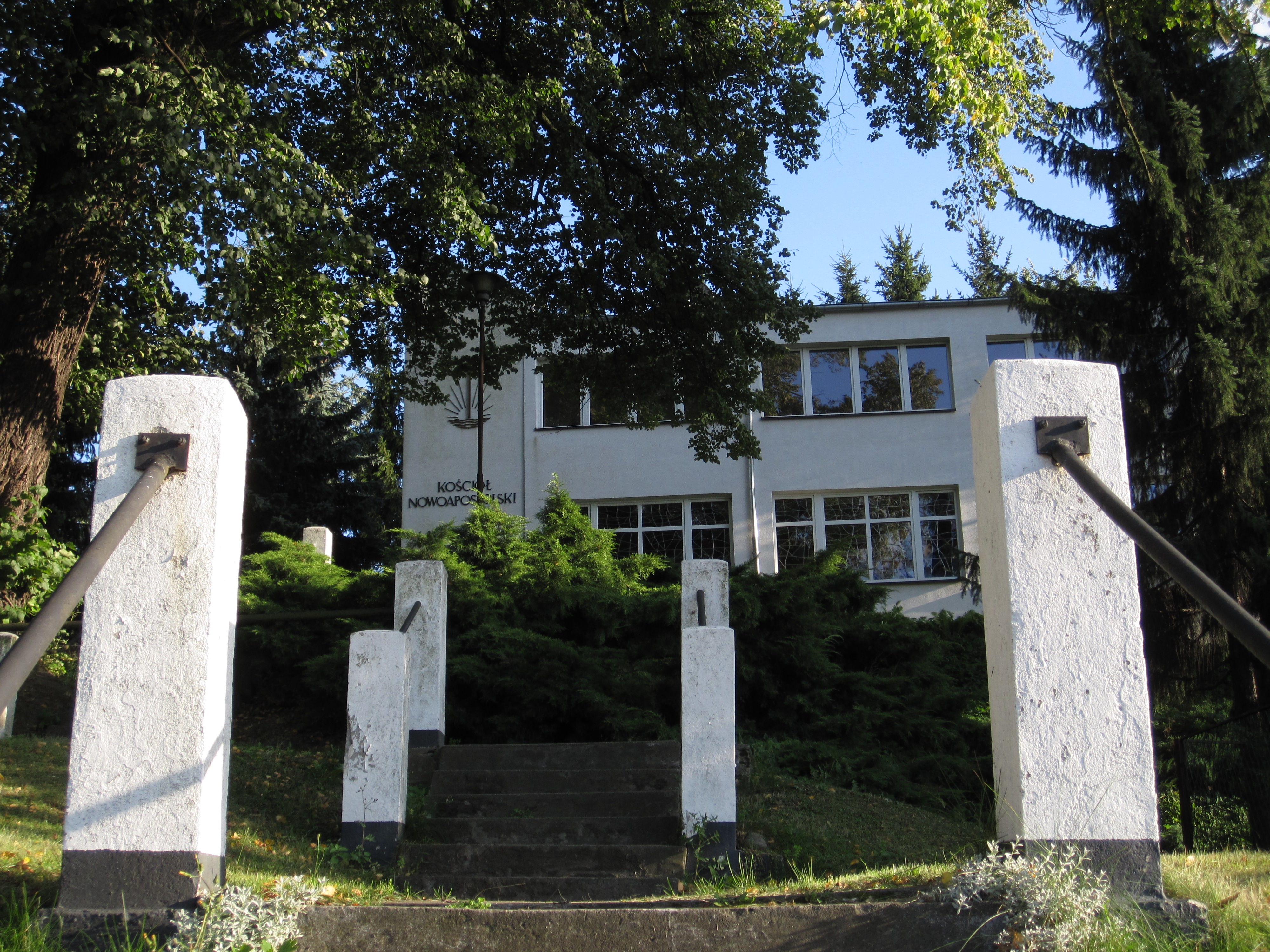 New Apostolic Church in Ostróda